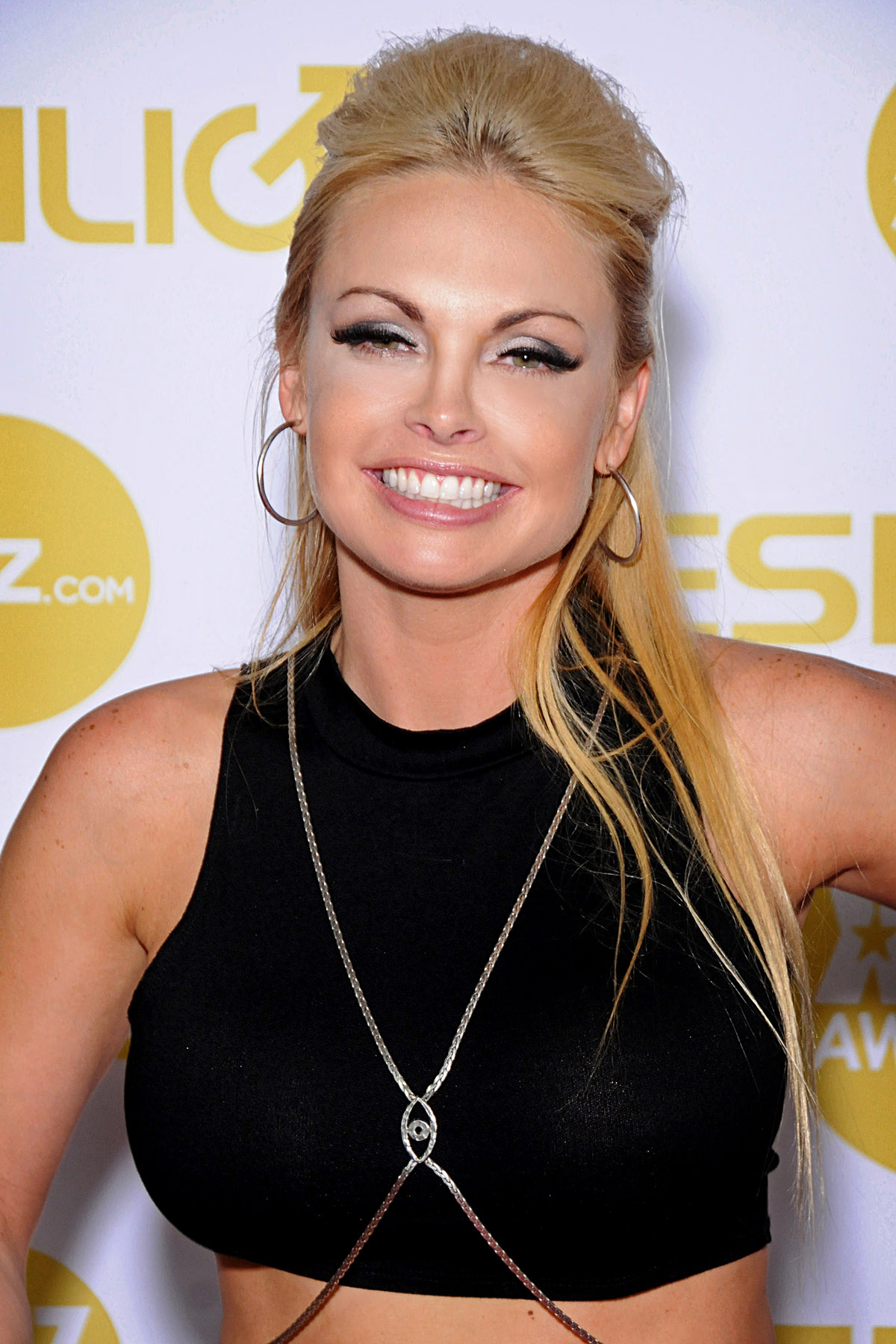 Jesse Jane at the 2014 XBIZ Awards Show - Photo by Glenn Francis of